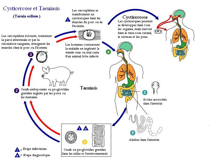 Taenia soliumPlatyhelminthes Cestoda Taenia Cysticercosis(French_version).GIF Traduction en français de l’image suivante : Cysticercosis.GIF Life cycle of Taenia solium Taeniasis is the infection of humans with the adult tapeworm of Taenia saginata or Taenia solium. Humans are the only definitive hosts for T. saginata and T. solium. Eggs or gravid proglottids are passed with feces ; the eggs can survive for days to months in the environment. Cattle (T. saginata) and pigs (T. solium) become infected by ingesting vegetation contaminated with eggs or gravid proglottids . In the animal's intestine, the oncospheres hatch , invade the intestinal wall, and migrate to the striated muscles, where they develop into cysticerci. A cysticercus can survive for several years in the animal. Humans become infected by ingesting raw or undercooked infected meat . In the human intestine, the cysticercus develops over 2 months into an adult tapeworm, which can survive for years. The adult tapeworms attach to the small intestine by their scolex and reside in the small intestine . Length of adult worms is usually 5 m or less for T. saginata (however it may reach up to 25 m) and 2 to 7 m for T. solium. The adults produce proglottids which mature, become gravid, detach from the tapeworm, and migrate to the anus or are passed in the stool (approximately 6 per day). T. saginata adults usually have 1,000 to 2,000 proglottids, while T. solium adults have an average of 1,000 proglottids. The eggs contained in the gravid proglottids are released after the proglottids are passed with the feces. T. saginata may produce up to 100,000 and T. solium may produce 50,000 eggs per proglottid respectively.